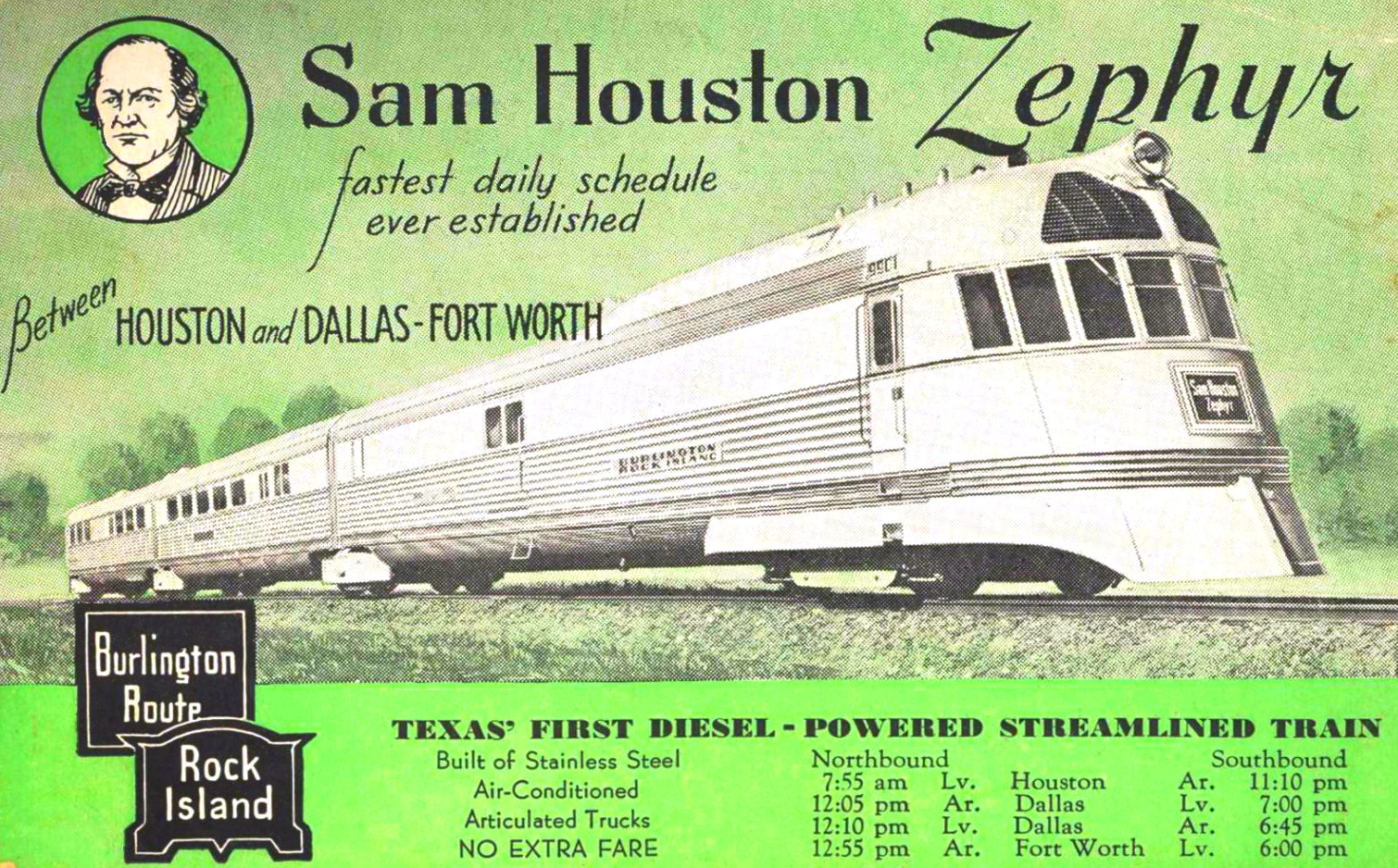 Promotional postcard for the Sam Houston Zephyr which was operated jointly by the Chicago, Burlington and Quincy Railroad and the Rock Island Railroad. Service began on the line on 1 October 1936 and ultimately ended in 1966. This is a depiction of the first trainset of the service. Built by Budd, it was in service from 1936 until 1944, when the entire train was destroyed by fire while it was operating under the Rock Island's jurisdiction. A different style of trainset replaced it.